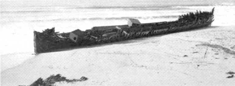 Minnie A Caine burnt ashore at Santa Monica Bay 1940